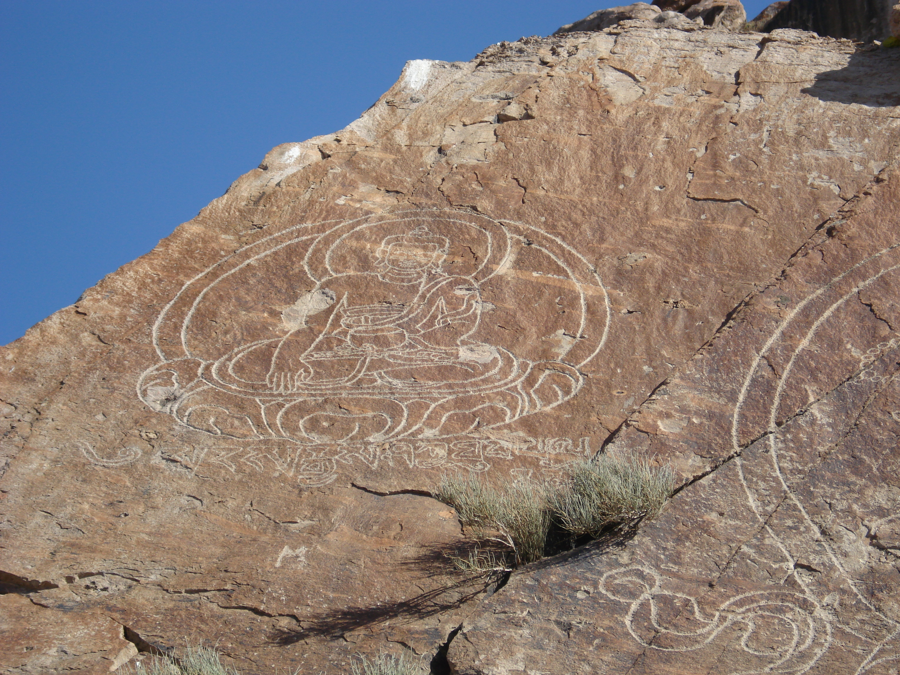 Tamgaly-Tas